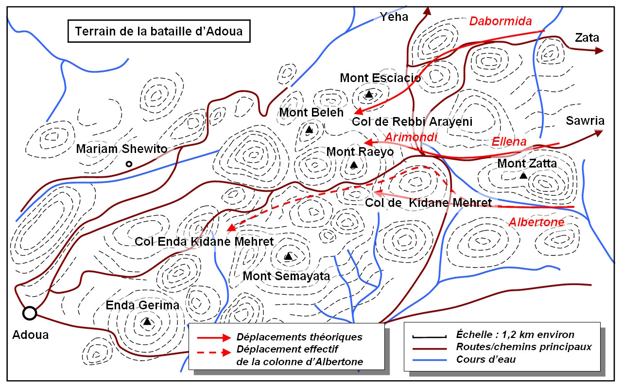 Theorical plan of Baratieri for the movements of Italian troops at the beginning of the battle of Adwa; 1896 - derivative from Baratieri Map